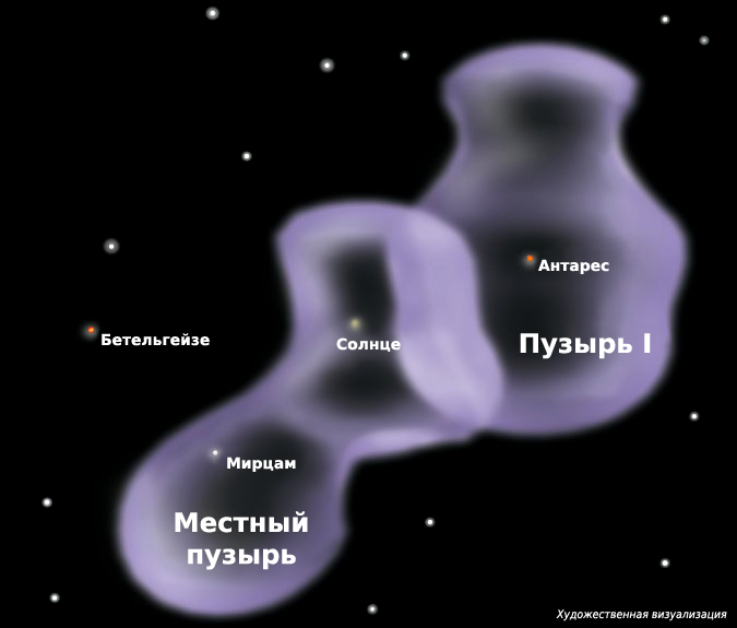 The Local Bubble. Derived from Image:Local bubble it.png.